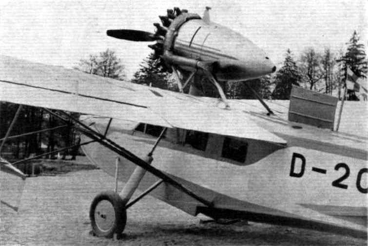 Engine view of Heinkel HE 57 at Stockholm International Aero Show 1931 (from Flight 1931-05-29, pag.473).